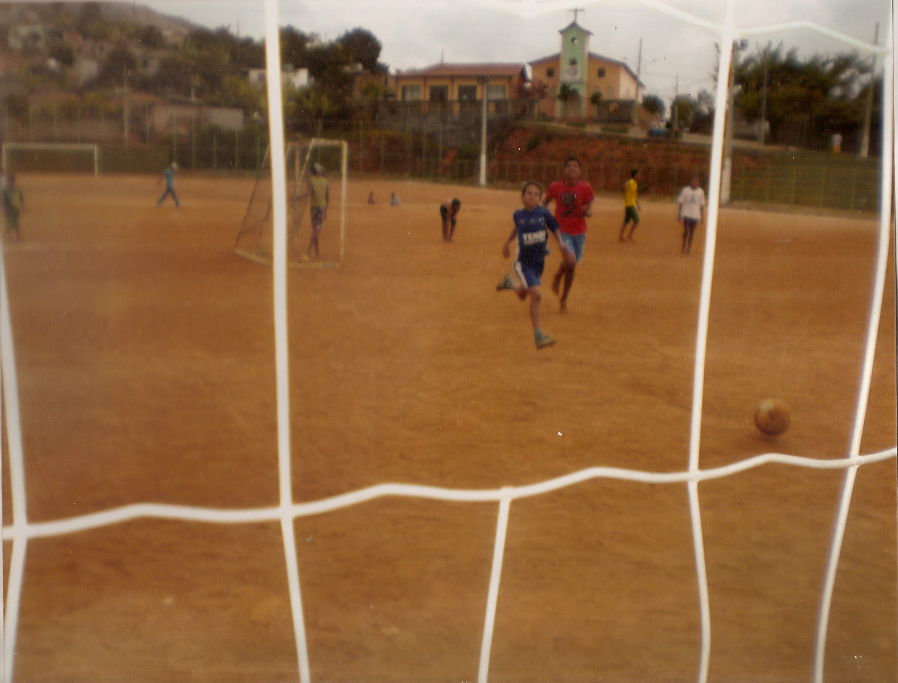 Children in a small soccer field of João Monlevade, Minas Gerais, Brazil.